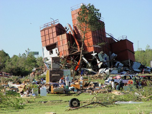 Extensive damage to a mill near Damascus, Arkansas on May 2, 2008. The tornado that caused extensive damage to the town killed 5 people in Van Buren and Conway Counties. Courtesy of NWS Little Rock, AR.